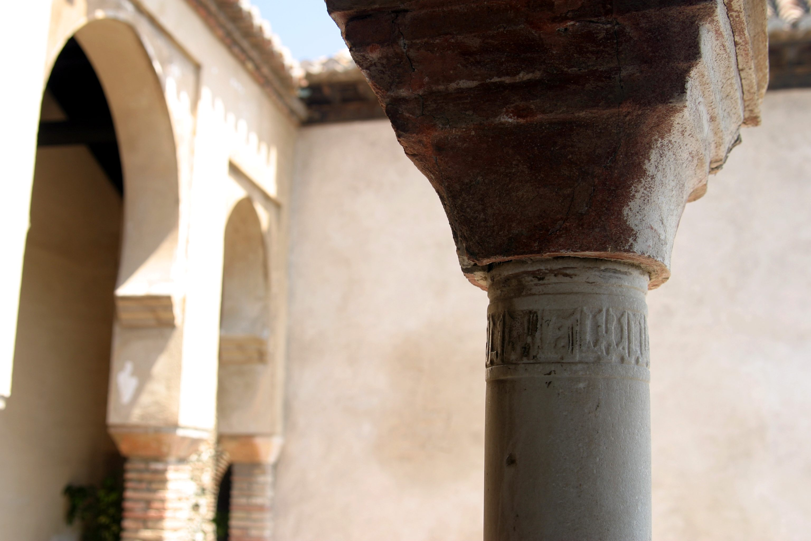 Alcazaba of Malaga, Spain